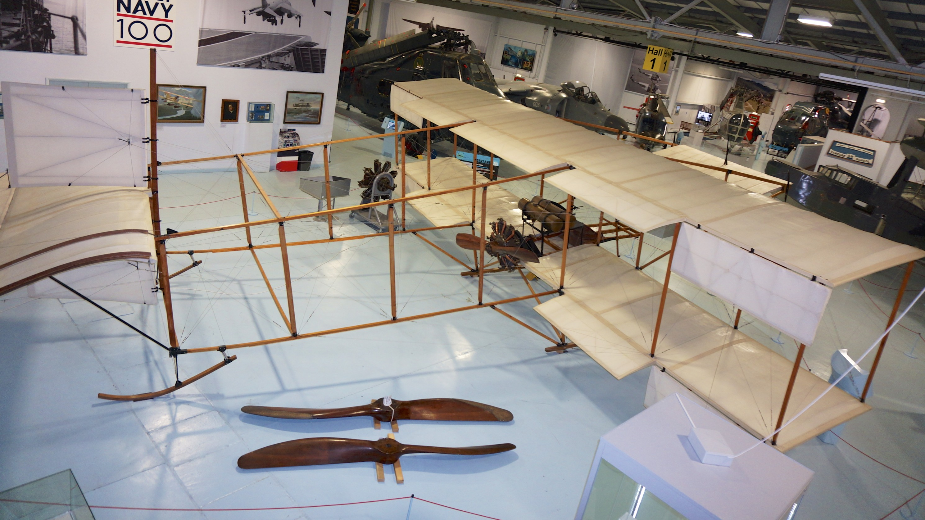 Royal Navy. Fleet Air Arm Museum . Yeovilton. Somerset. UK Short S27 biplane